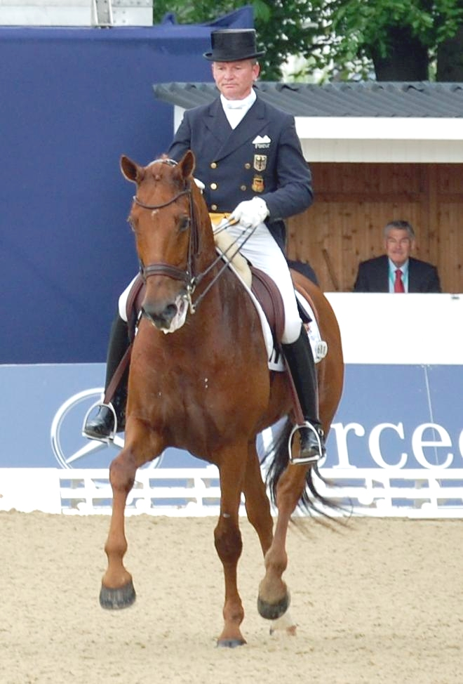 Hubertus Schmidt und Macrider Premier, best rider und best horse of the 54th German dressage derby, a dressage competition with a horse change. Hamburg 2012.